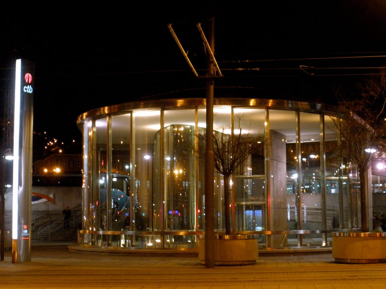 Salida en Termibús de la Estación de San Mamés (Renfe Cercanías y Metro), en Bilbao